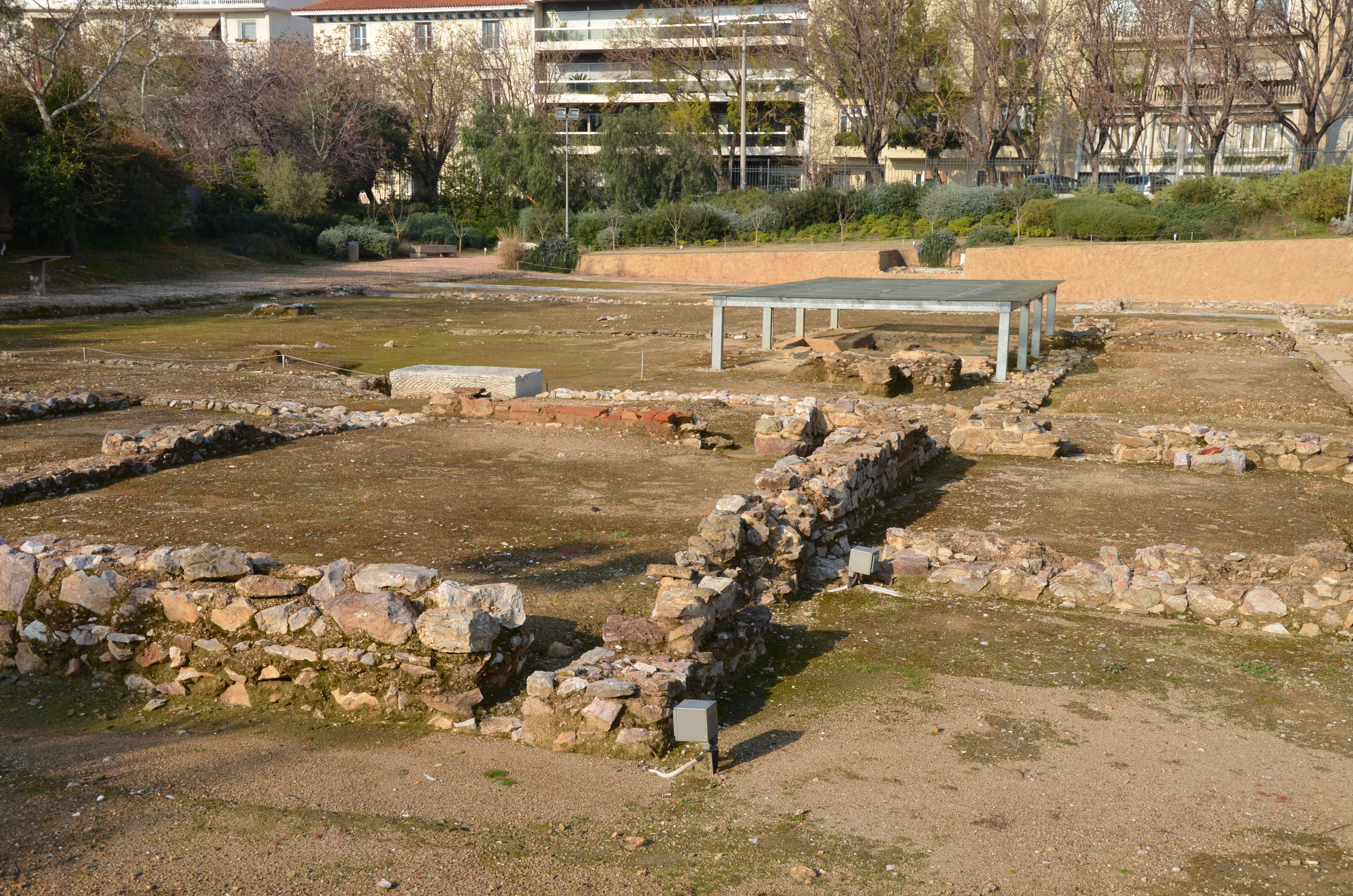 During a 1996 excavation to clear space for Athens’ new Museum of Modern Art, the remains of Aristotle’s Lyceum were uncovered. Descriptions from the works of ancient philosophers hint at the location of the grounds, speculated to be somewhere just outside the eastern boundary of ancient Athens, near the rivers Ilissos and Eridanos, and close to Lycabettus Hill. The excavation site is located in downtown Athens, by the junction of Rigillis and Vasilissis Sofias Streets, next to the Athens War Museum and the National Conservatory. The first excavations revealed a gymnasium and wrestling area, but further work has uncovered the majority of what is believed to have withstood the erosion caused to the region by nearby architecture’s placement and drainage. The buildings are definitely those of the original Lyceum, as their foundations lie on the bedrock and there are no other strata further below. Upon realizing the magnitude of the discovery, contingency plans were made for a nearby construction of the Art Museum so that it could be combined with a Lyceum outdoor museum and give visitors easy access to both. There are plans for canopies to be placed over the Lyceum remains, and the area was opened to the public in 2009. (Classical)#Aristotle's_Lyceum_today